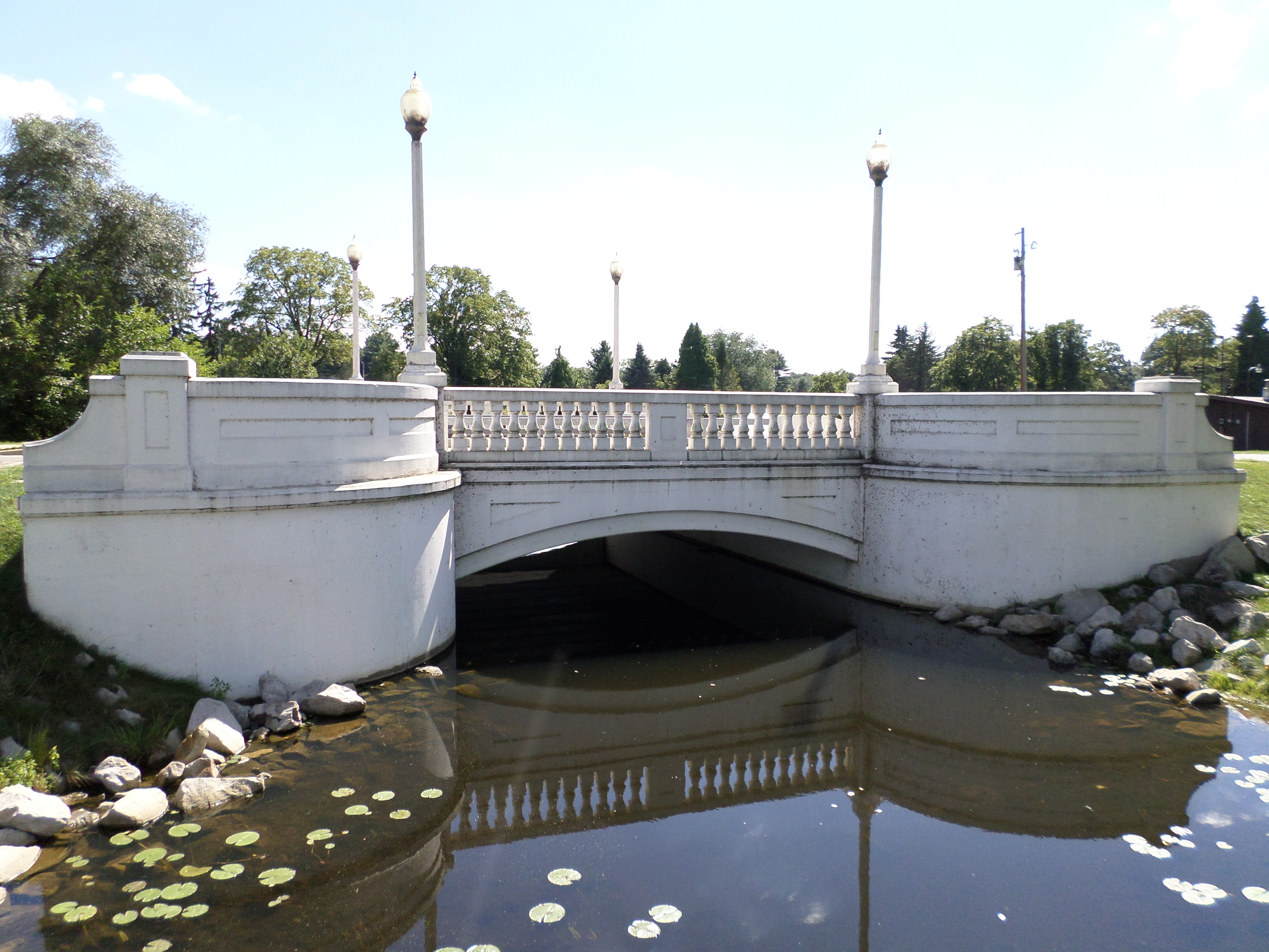 The Denton Road bridge in Cascade Falls Park in Jackson, MI. It is a reproduction of a previous bridge that was listed on the National Register of Historic Places.